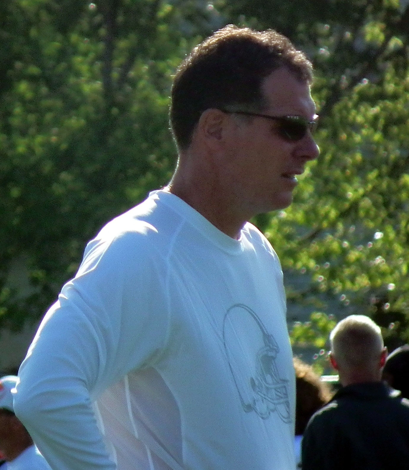 Pat Shurmur in July 2012